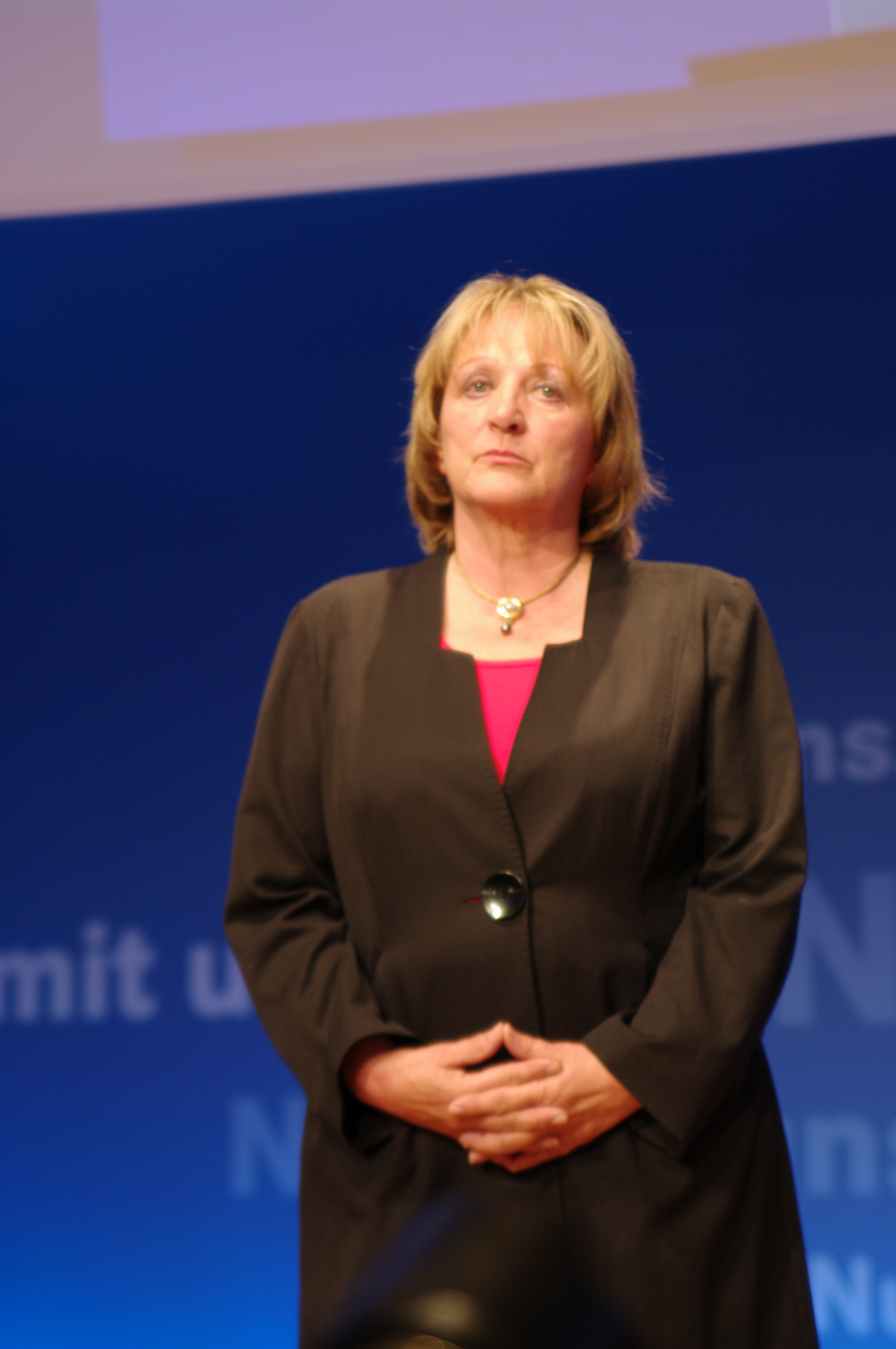 The federal election party FDP in Berlin Congress Center for the parliamentary election in 2013